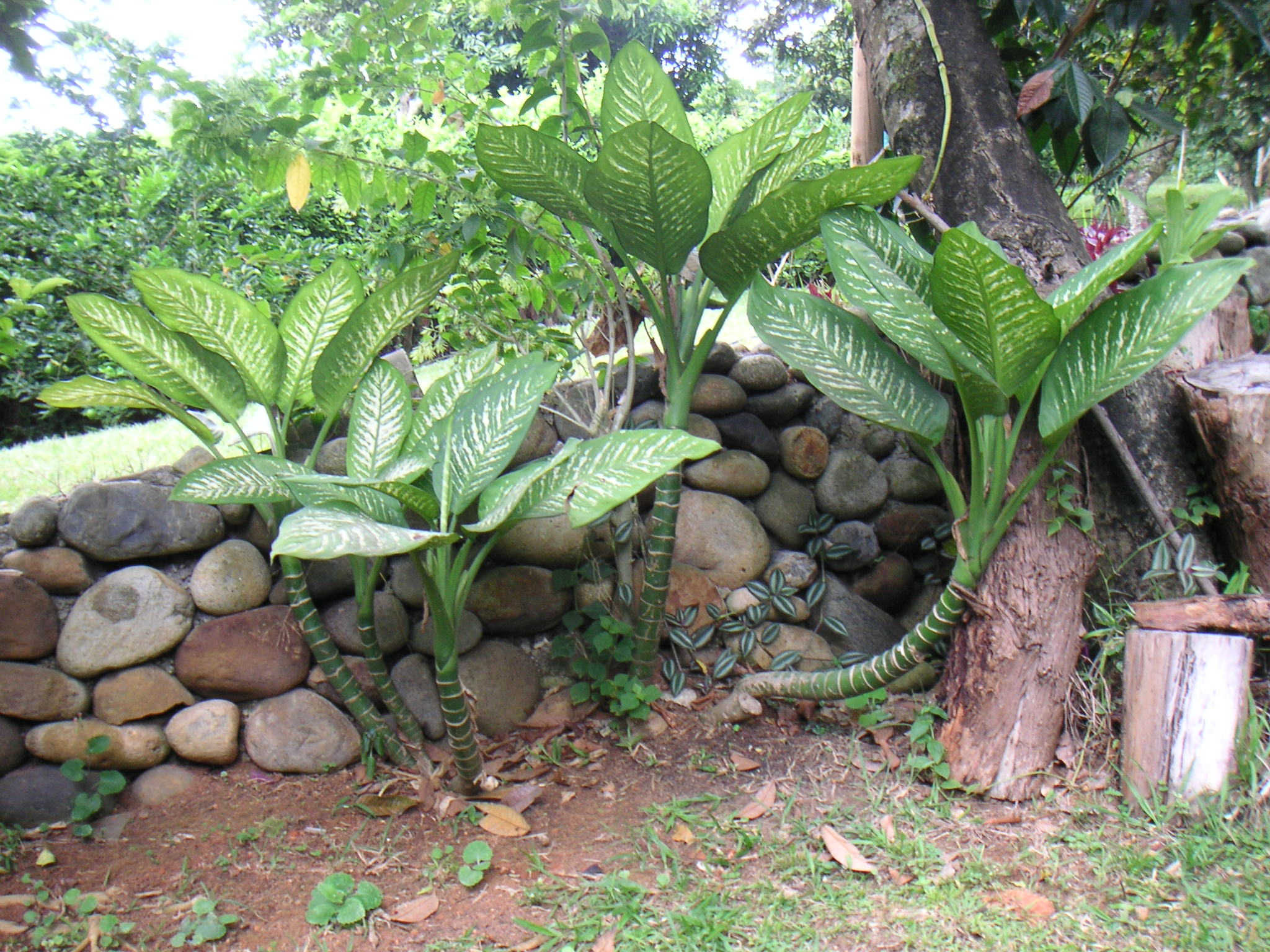 Dieffenbachia bowmannii, Cali, Colombia